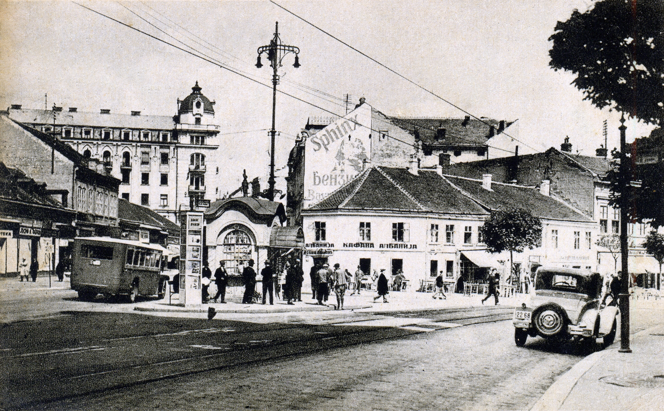 Old phtograph of the Belgrade, the capital of Serbia